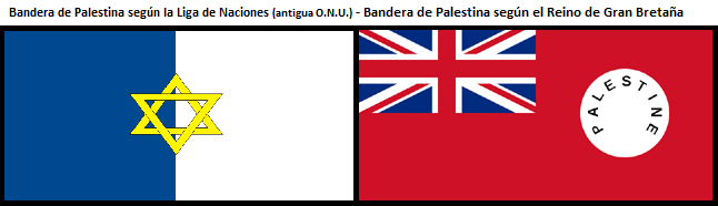 Flags of the Mandate of the United Kingdom from 1922 till 1948 according to United KIngdom and the League of Nations (old version from O.N.U.) NOTE: The left flag appears in the French Larousse dictionary, but was certainly not officially recognized (see extensive discussions at Talk:Flag_of_Mandatory_Palestine); the right flag was the Palestine Mandate Ensign, flown at sea by ships registered in the mandate territory from 1927-1948. Both have distorted aspect ratios as incorporated into this image...